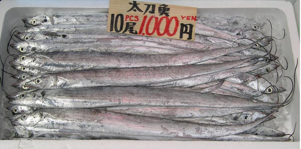 Trichiurus lepturus (Largehead Hairtails) for sale at a fish market in Tokyo. ja:2006年3月に東京で売られていたja:タチウオ。